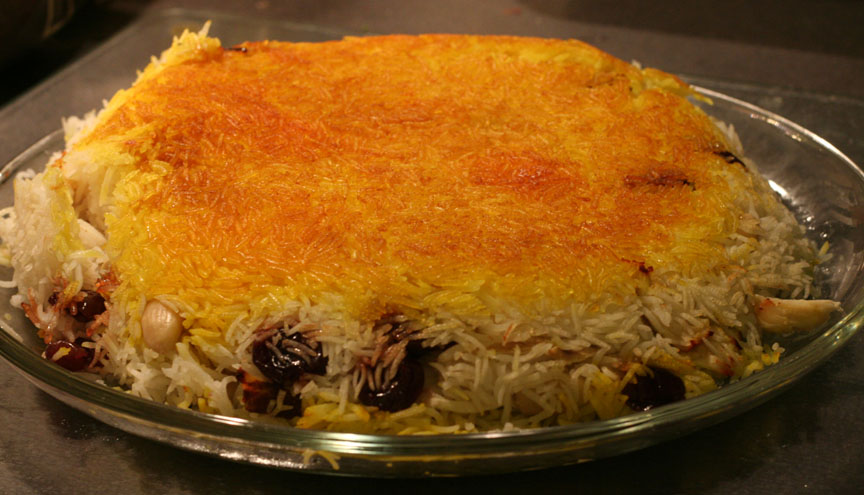 Cherry rice dish with tadeeg (crust).